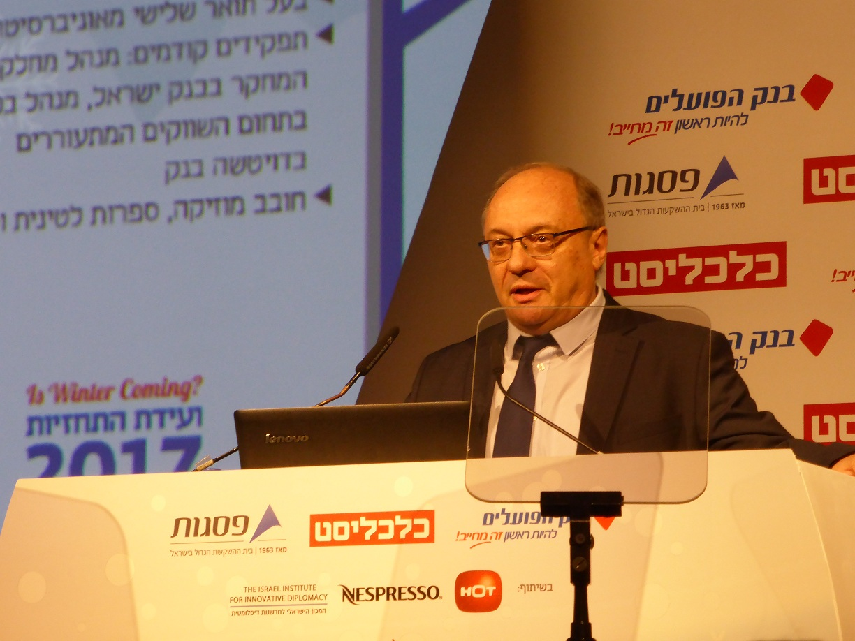 Leo Leiderman in Tel Aviv, 28 December 2016.